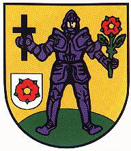 Coat of arms of Lucka